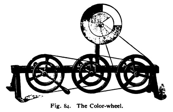 A color wheel as used by Hering